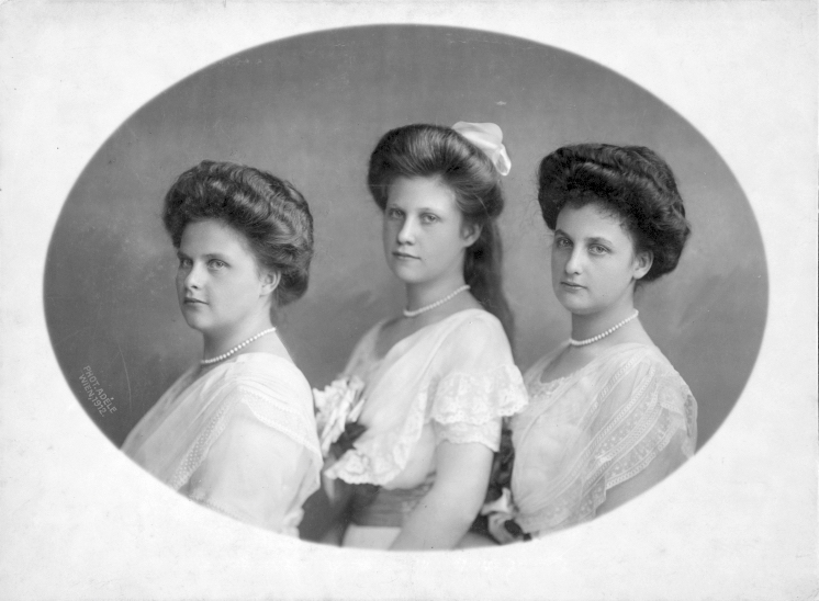 Archiduchesses Dolores, Margaretha and Inmakulata of Austria